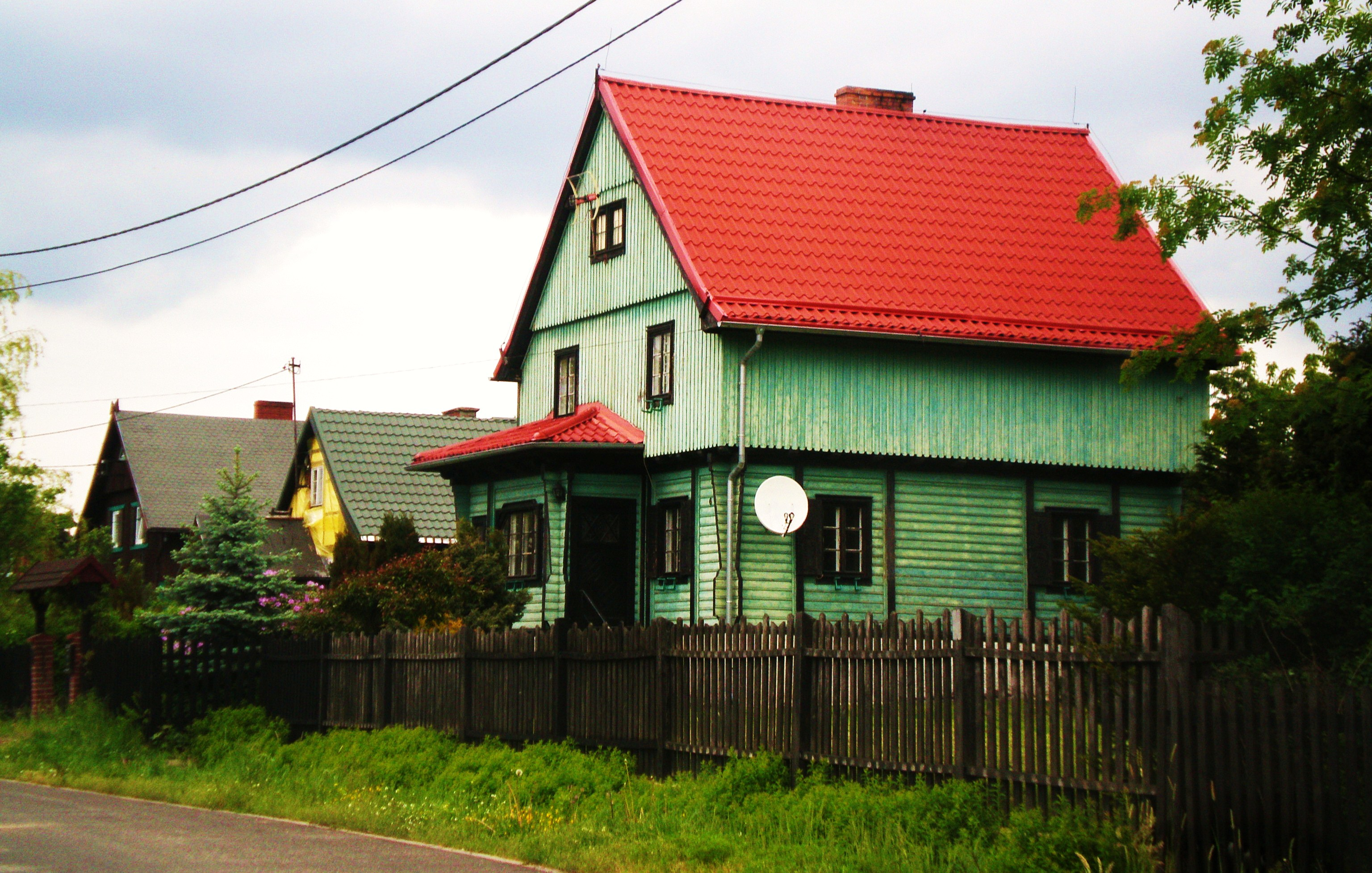 Janowice Wielkie - Kopernik Street